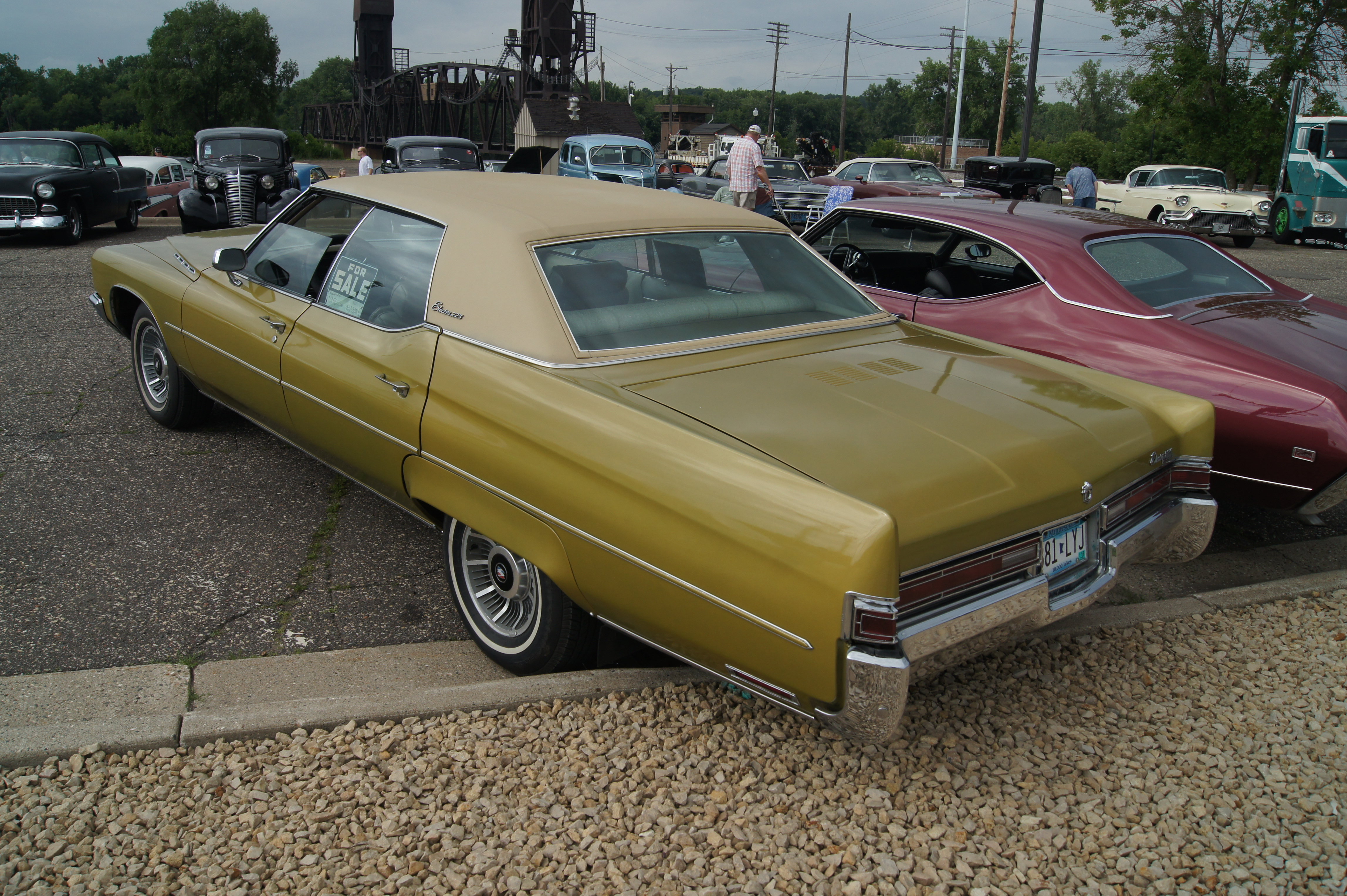 HISTORIC DOWNTOWN HASTINGS CRUISE-IN & CLASSIC CAR SHOW July 11, 2015 Click here for more car pictures at my Flickr site.